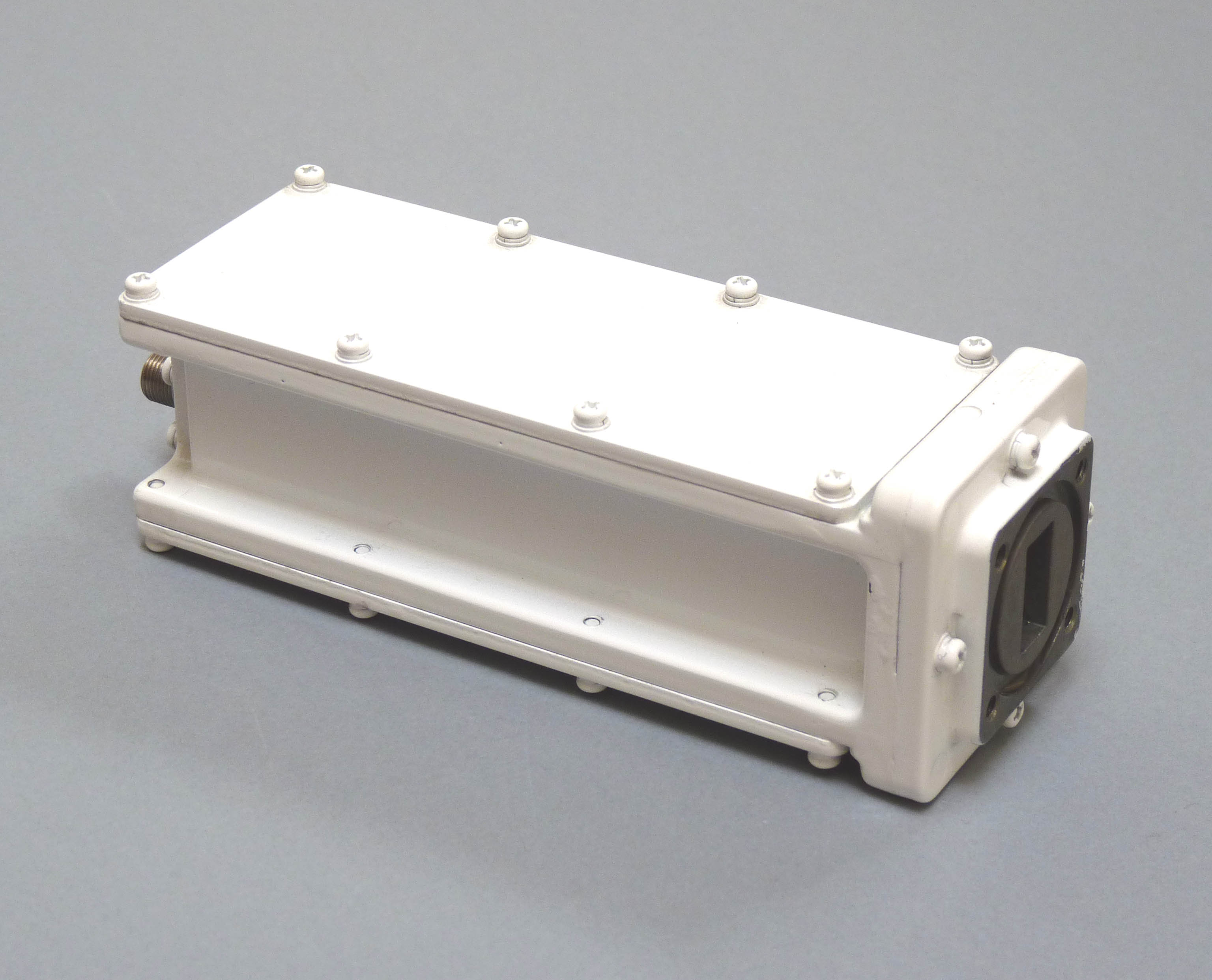 1980s satellite TV LNB with 2.18dB noise figure